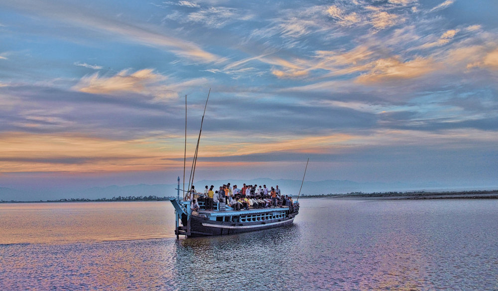 Jorhat